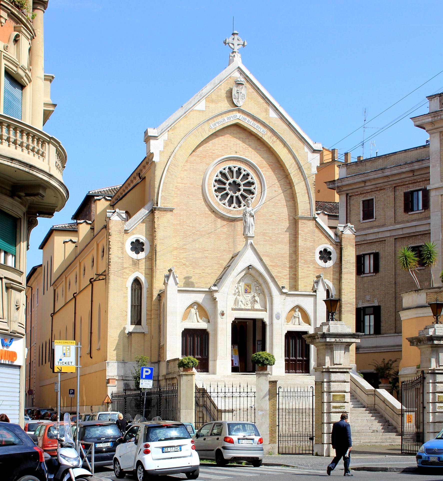 Church of St. Alphonsus Liguori, Rome, Italy